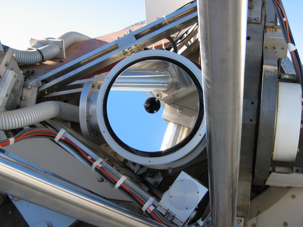 Made and released under GFDL by Tim van Werkhoven. This is an image of the 45 cm mirror of the Dutch Open Telescope.